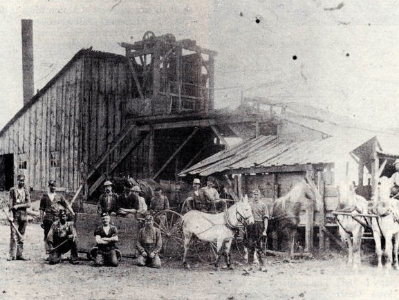 The Sam Smith Coal Mine of Oskaloosa, Iowa is pictured in 1895.